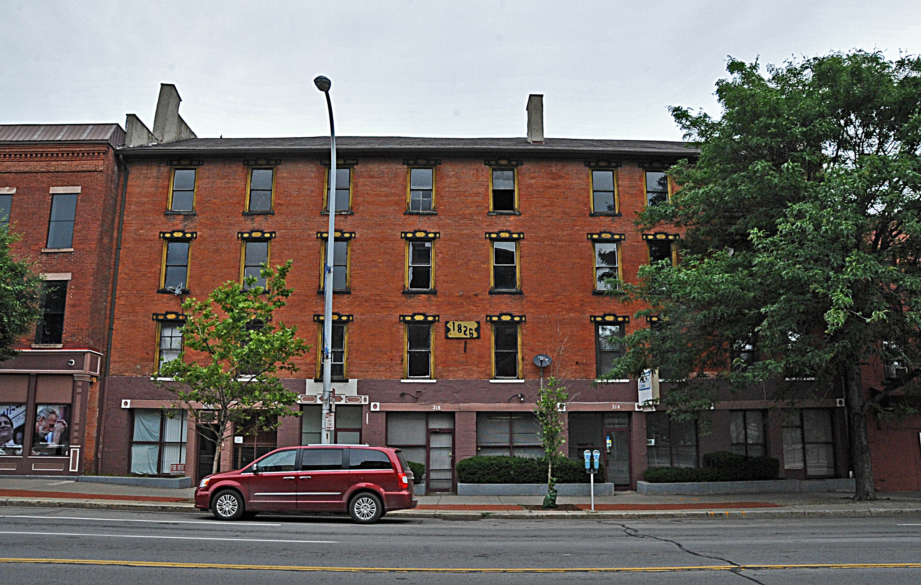 U.S. HOTEL BUILT IN 1826 IS THE OLDEST BUILDING IN THE DISTRICT AND SERVED AS THE LOCATION FOR THE FOUNDING OF THE UNIVERSITY OF ROCHEDSTER AND THE COLGATE DIVINITY SCHOOL